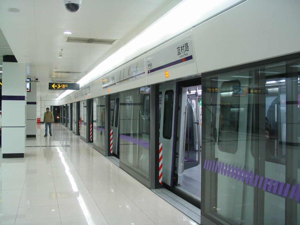 藍村路站-4號線月台 Line 4 Platform of Lancun Road Station